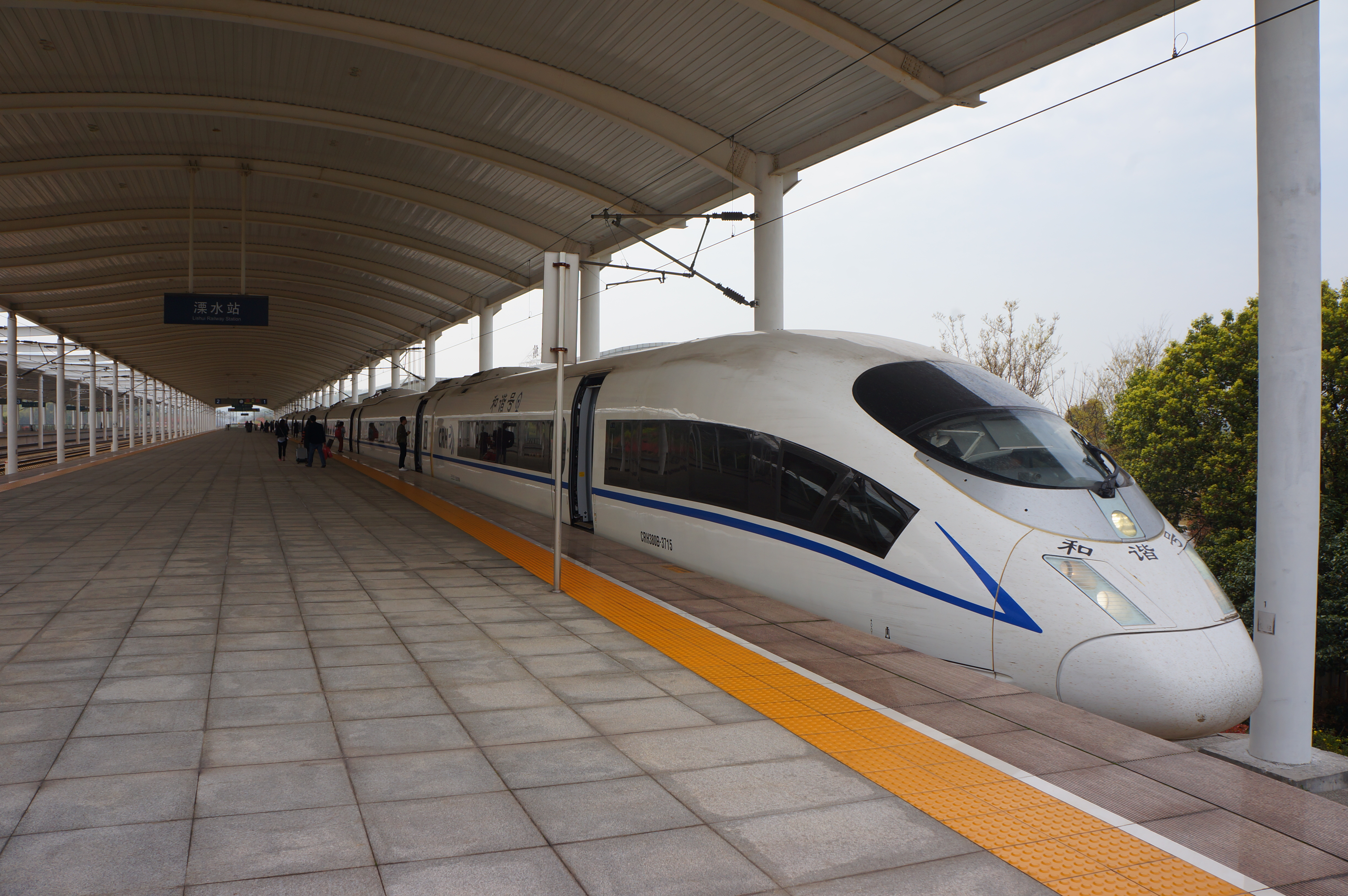 201704 G1882 at Lishui Station